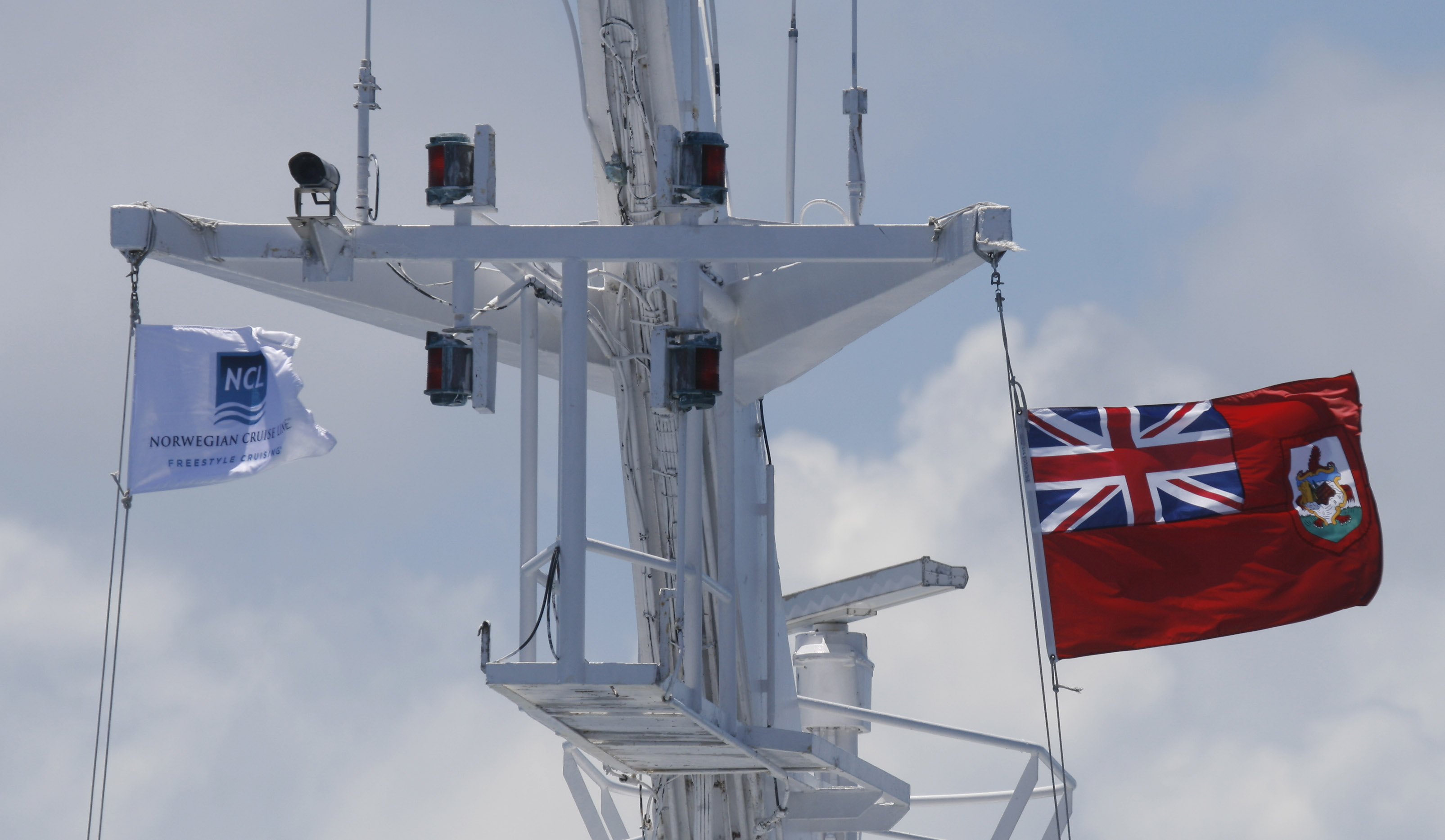 Norwegian Majesty flags while in port at St. George, Bermuda